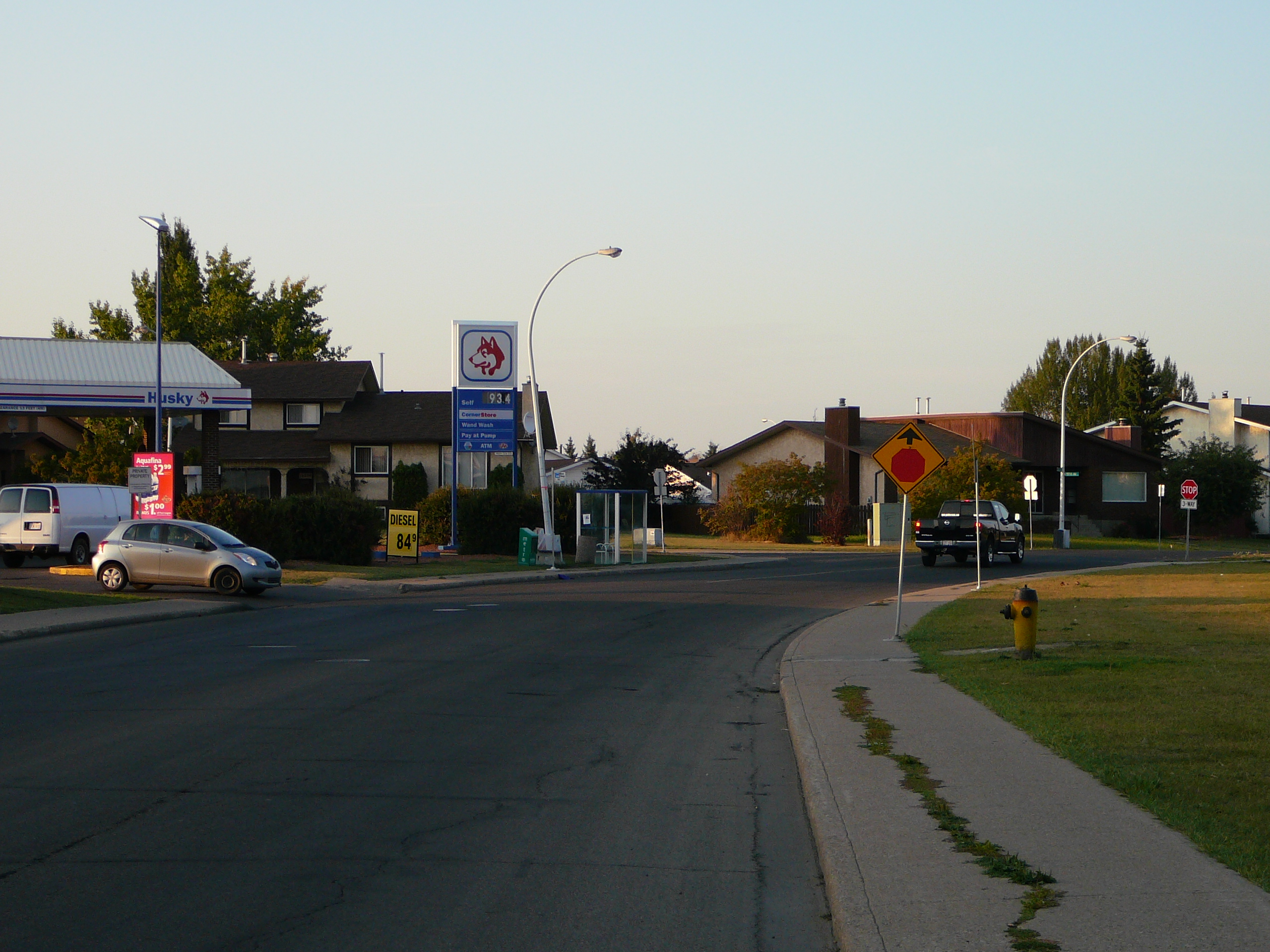 Residential street in the Edmonton, Canada, neighbourhood of La Perle.